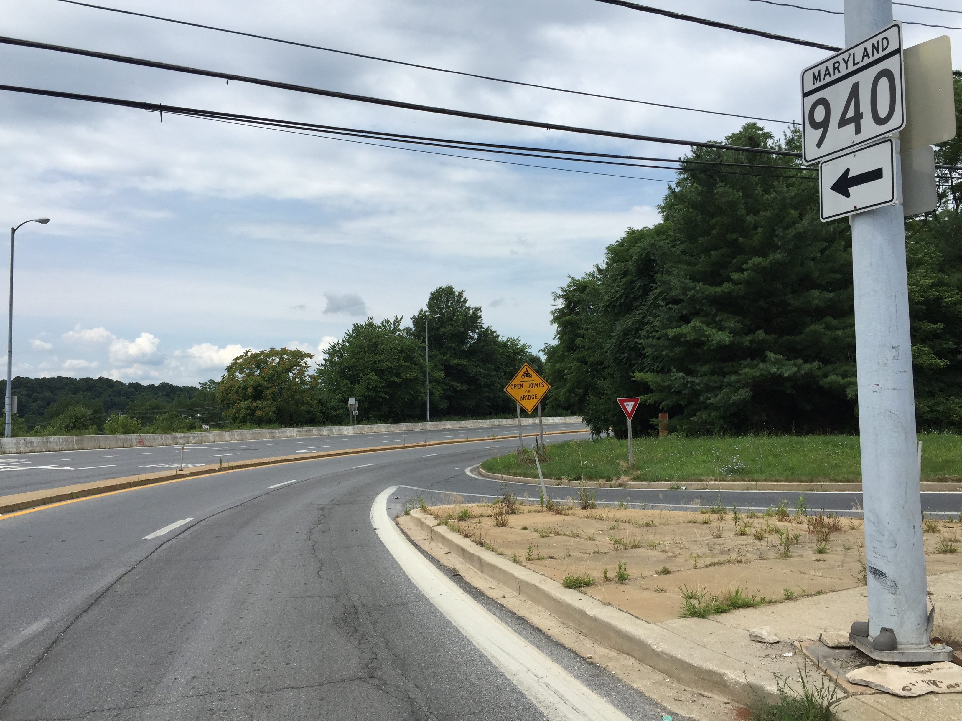 View west along the road connecting Reisterstown Road (Maryland State Route 140) to Owings Mill Boulevard (Maryland State Route 940) in Owings Mill, Baltimore County, Maryland